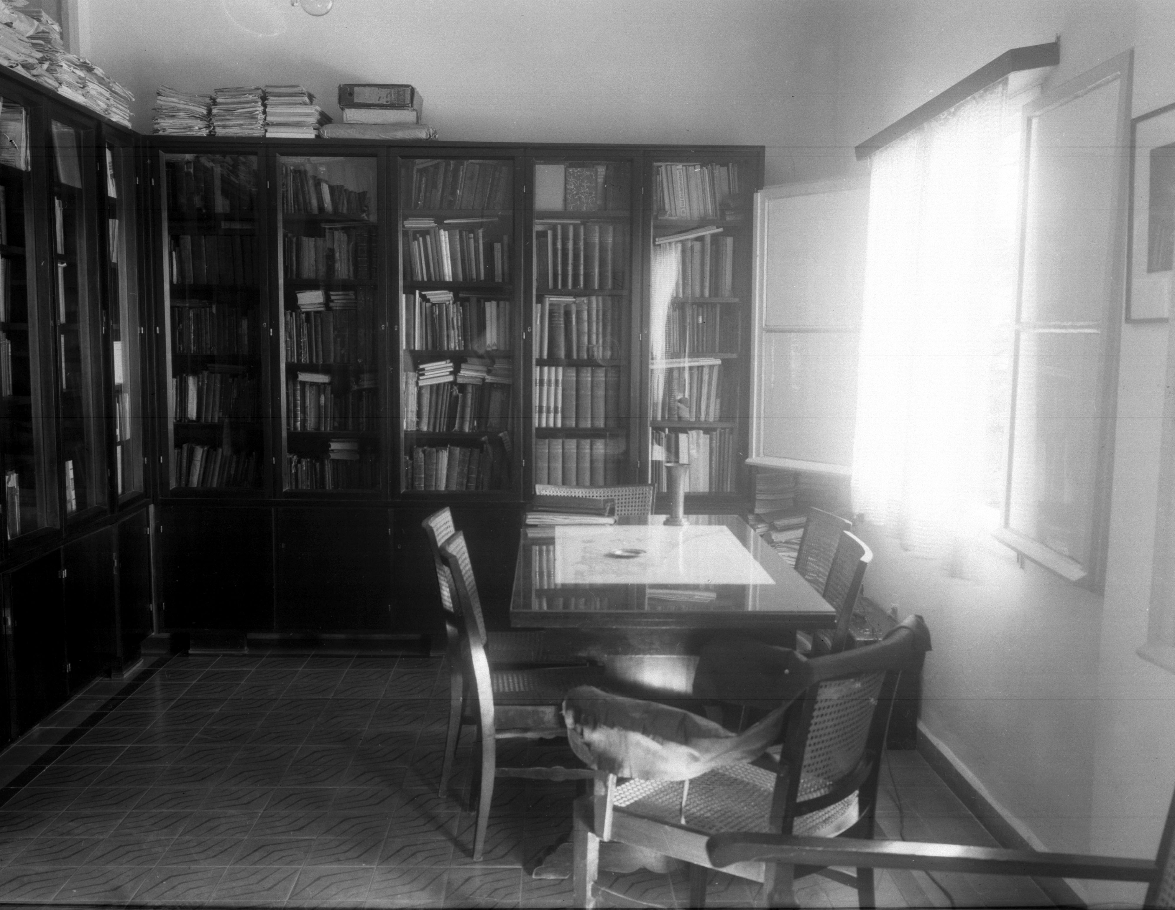 THE STUDY OF LABOUR LEADER BERL KATZENELSON. לשכתו של ברל כצנלסון.